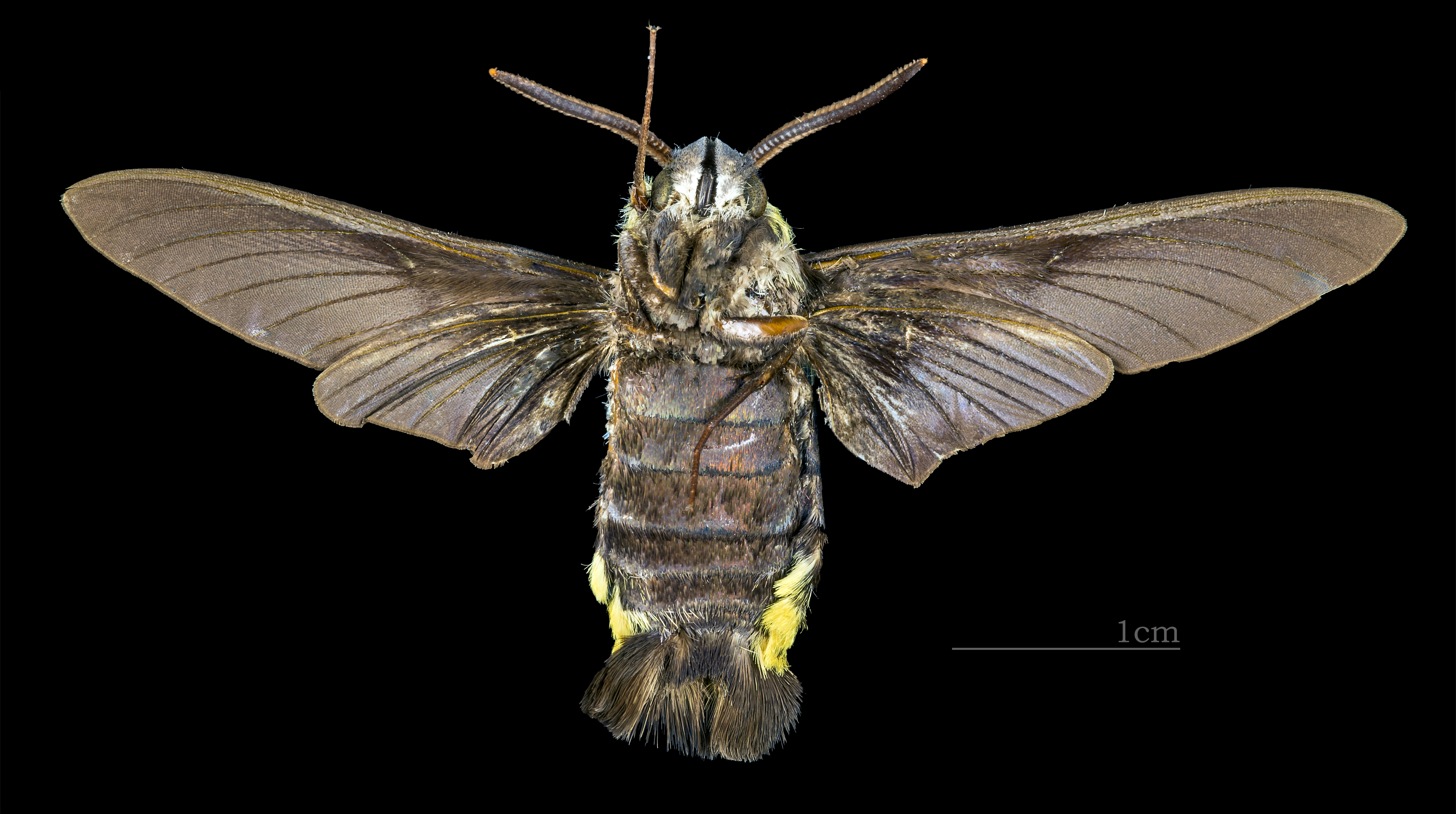 Sataspes infernalis - △ Ventral side